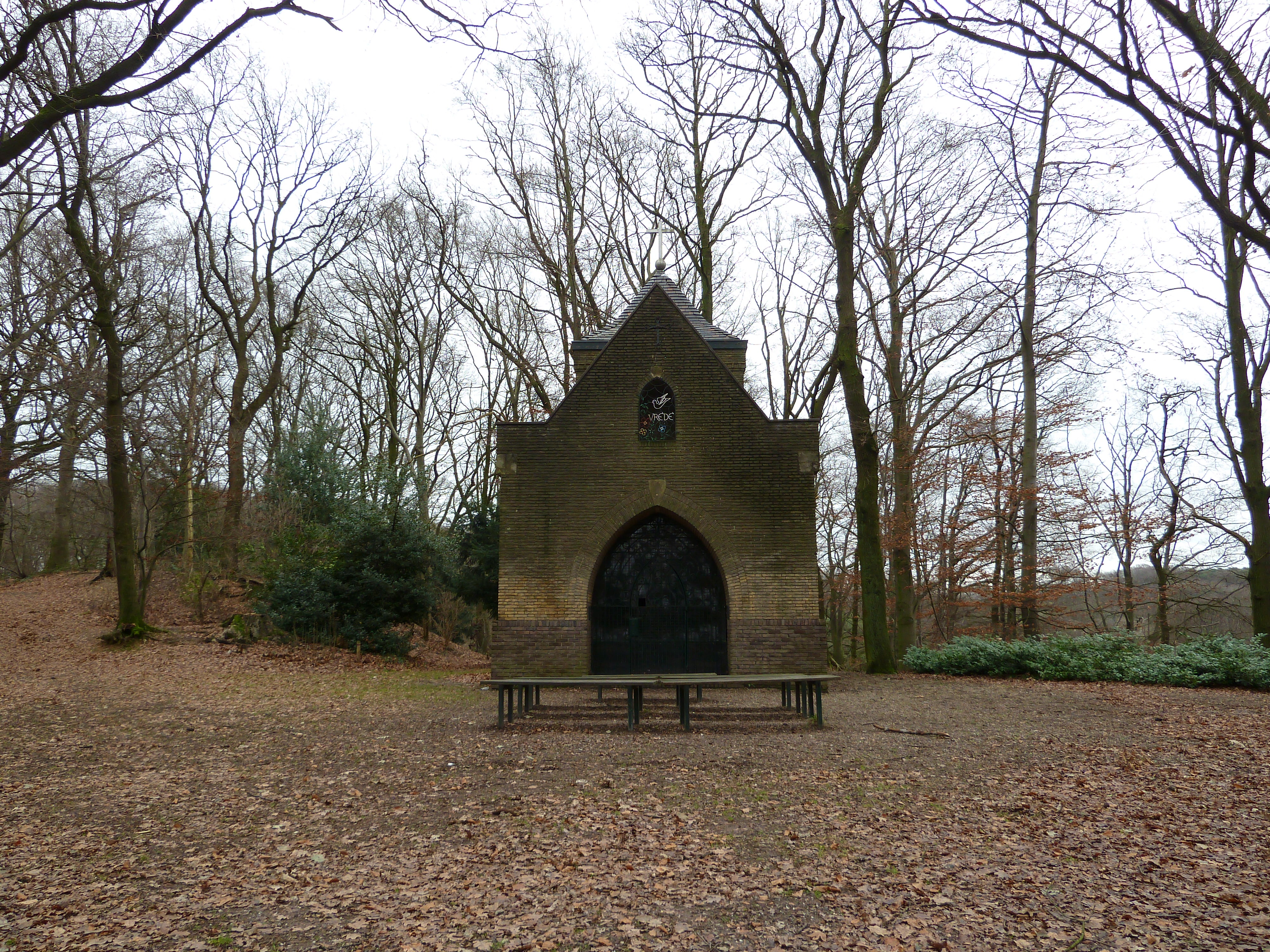 Chapel at the Krekelberg, Schinnen, Limburg, the Netherlands